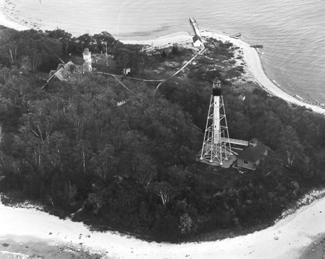 undated United States Coast Guard photograph of the South Fox Island Light, showing both towers